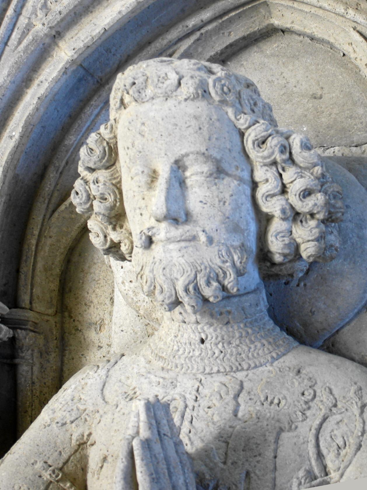 "Bergischer Dom" in Odenthal-Altenberg, Germany. Grave of Gerhard I. Count of Jülich-Berg.